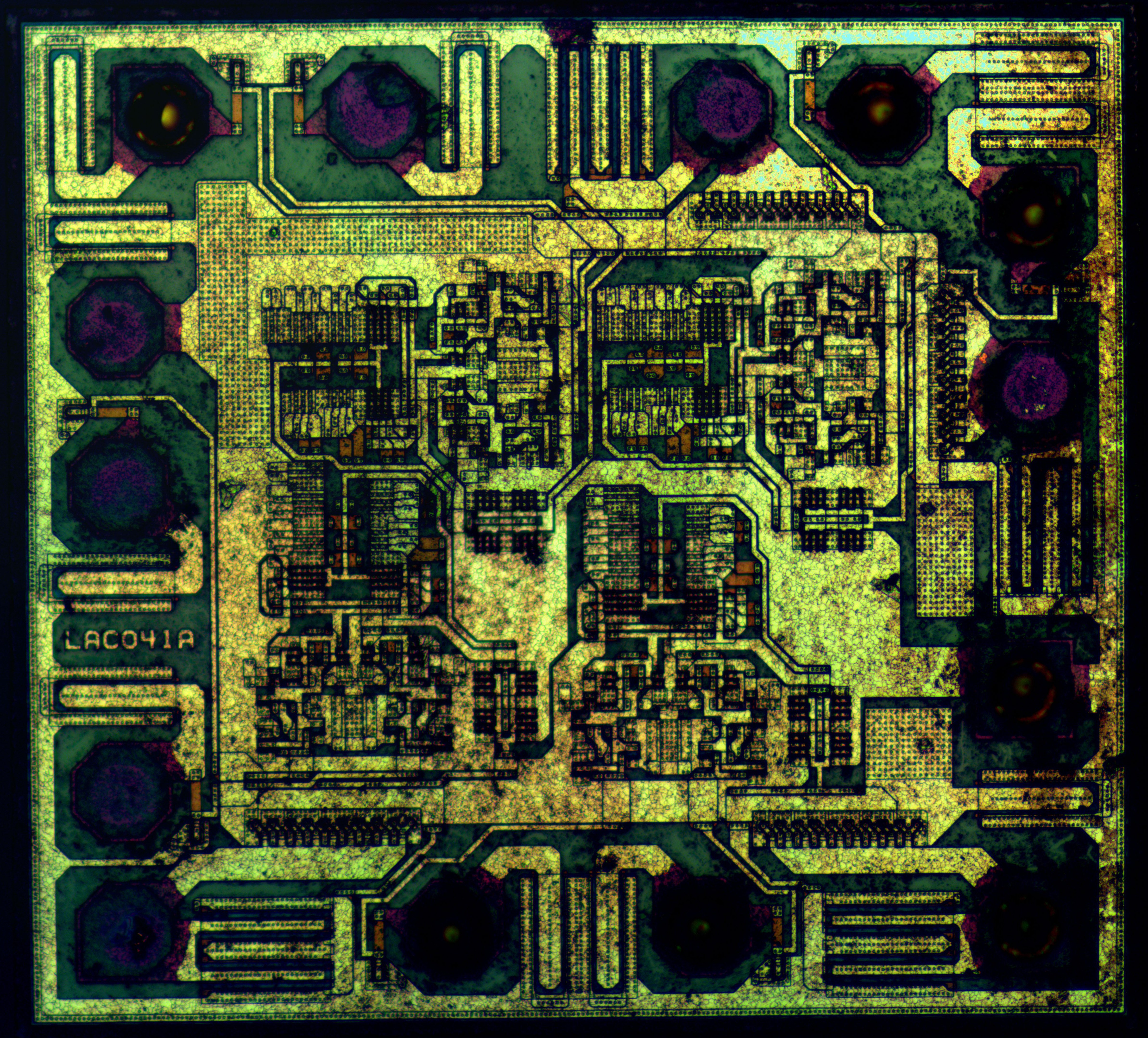 Integrated circuit die photo of a 74AHC00D quad 2-input NAND gate manufactured by NXP Semiconductors.